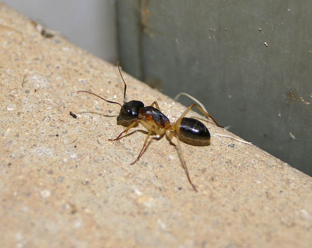 Camponotus consobrinus (Sugar Ant) worker photographed in Wagga Wagga, New South Wales, Australia. Because this photograph concerns privacy since this was taken on a private property, only an approximate location is provided: Wagga Wagga, New South Wales, Australia